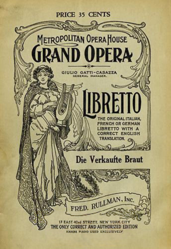 Cover page of the Libretto of The Bartered Bride, staged by the Metropolitan Opera House. The design is a standard template, only the title of the opera and possibly the manager of the opera house are different from libretto covers of other operas staged by the House.